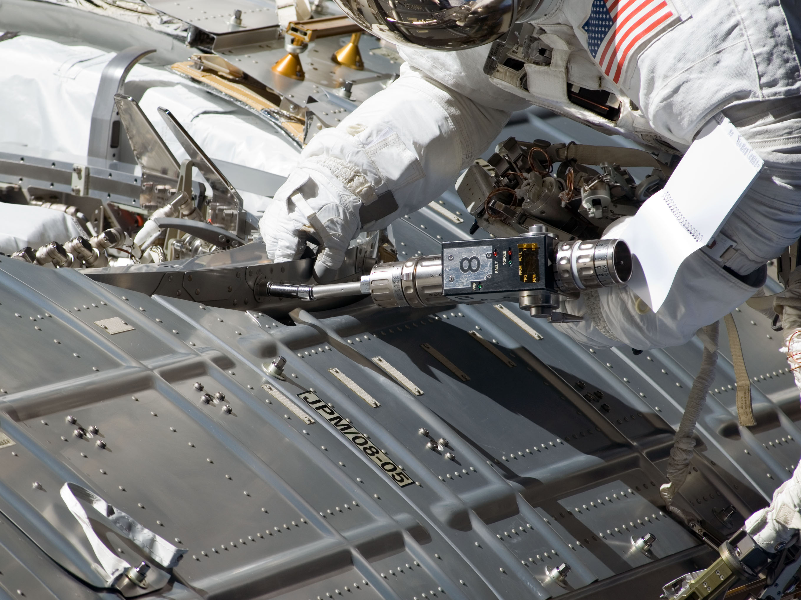 Astronaut Ron Garan, STS-124 mission specialist, participates in the mission's second scheduled session of extravehicular activity (EVA) as construction and maintenance continue on the International Space Station. During the seven-hour, 11-minute spacewalk, Garan and astronaut Mike Fossum (out of frame), mission specialist, installed television cameras on the front and rear of the Kibo Japanese Pressurized Module (JPM) to assist Kibo robotic arm operations, removed thermal covers from the Kibo robotic arm, prepared an upper JPM docking port for flight day seven's attachment of the Kibo logistics module, readied a spare nitrogen tank assembly for its installation during the third spacewalk, retrieved a failed television camera from the Port 1 truss, and inspected the port Solar Alpha Rotary Joint (SARJ).